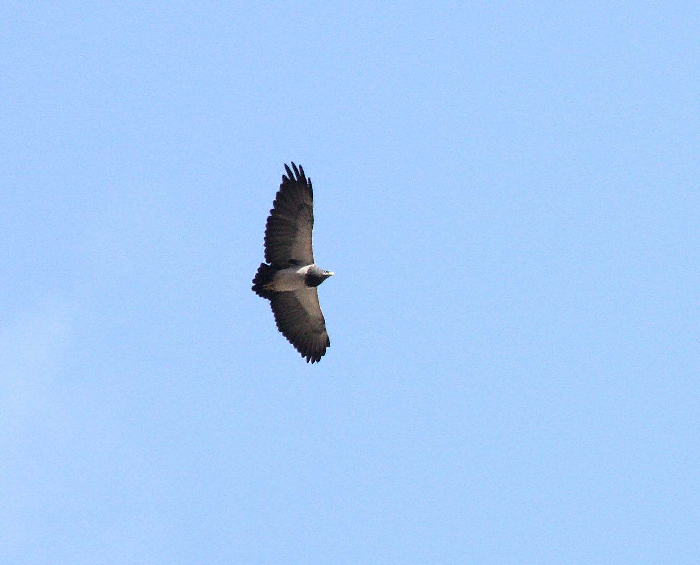 Black-chested Buzzard-Eagle (Geranoaetus melanoleucus)